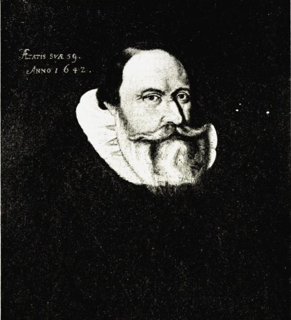 Oluf Boesen (also spelled Ole Boesen), Bishop of Oslo 1639–1646